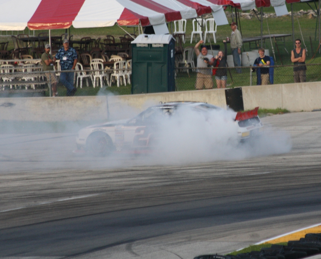 NASCAR driver A. J. Allmendinger celebrates winning the NASCAR Nationwide Series race at Road America.